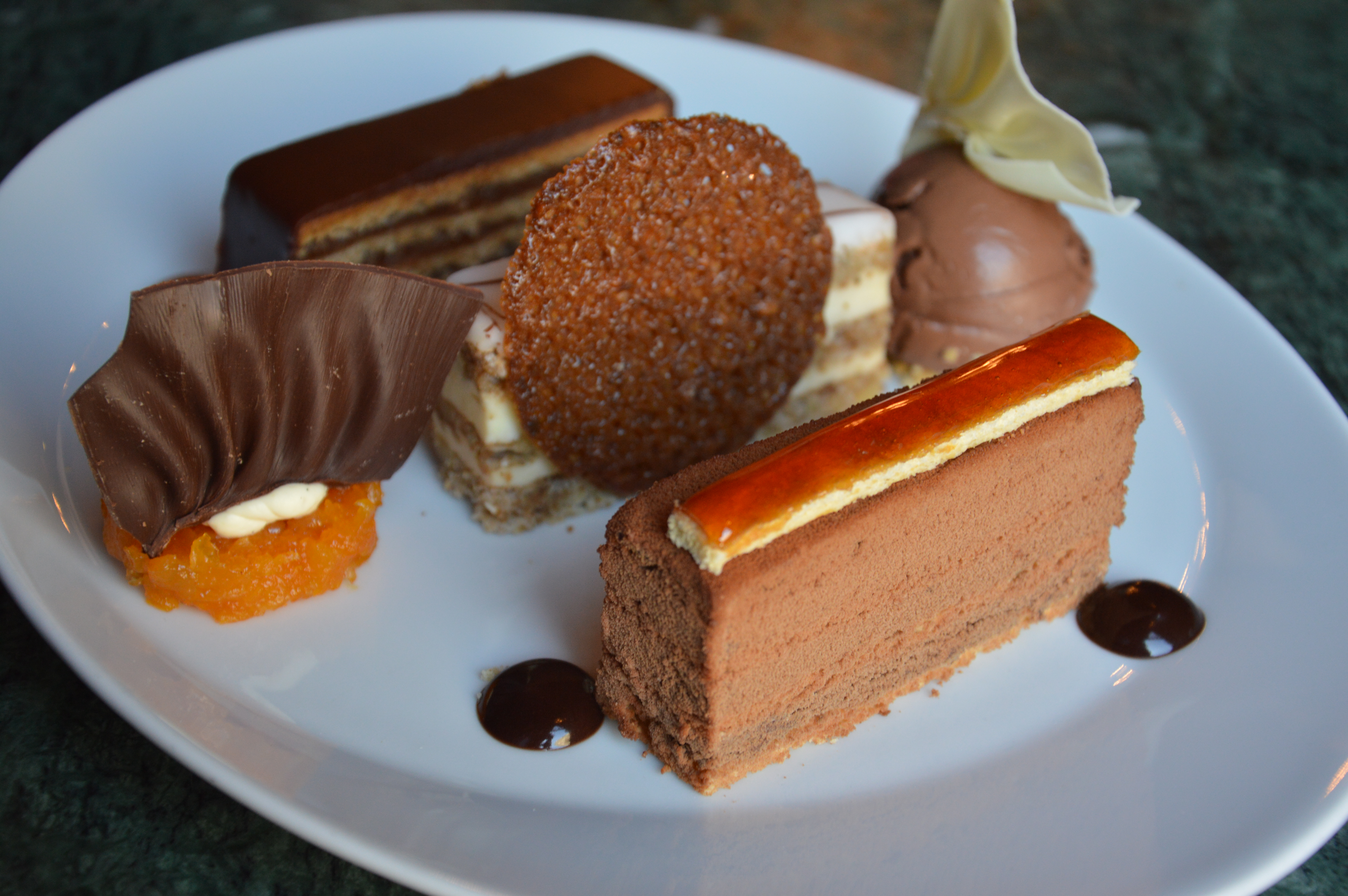 Square slices of (L-R) Zserbó, Eszterházy and Dobos cakes, as served at Café Gerbeaud in Vörösmarty tér, Budapest District V, Hungary. Chocolate ice-cream and apricot as garnish. The Dobos is dusted with chocolate powder, so it is difficult to see the layers.